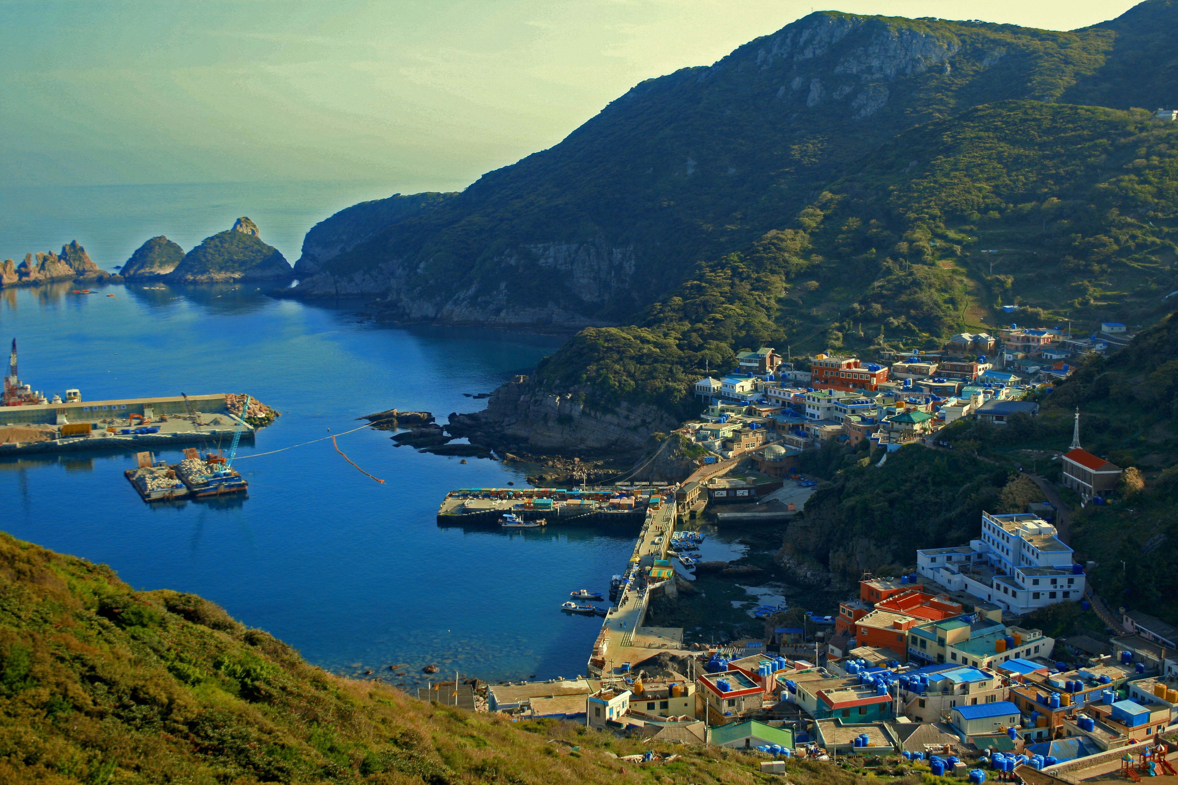 Hongdo Island in the Dadohae National Park area located in Sinan-gu, Jeollanam-do, South Korea